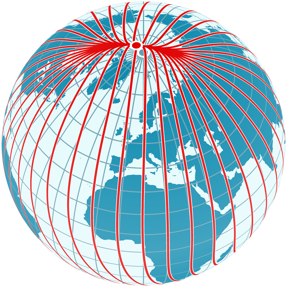 The diagram shows the magnetic meridians of the Earth's magnetic field. It is centered on the point at latitude 50° and longitude 10°. The magnetic meridians (not to be confused with magnetic field lines) follow the directions shown by a magnetic compass, that is, they follow the direction of the horizontal component of the field lines in the vicinity of the Earth's surface and thus show the shape of the field. The angle between the magnetic meridians (red) and the geographic meridians (blue, running precisely north-south) is the magnetic declination. The diagram demonstrates the irregularities of the Earth's magnetic field and the fact that in general compasses point neither towards the geographic north pole nor towards the magnetic north pole. The magnetic field was computed using the coefficients of the International Geomagnetic Reference Field for the epoch 2010.